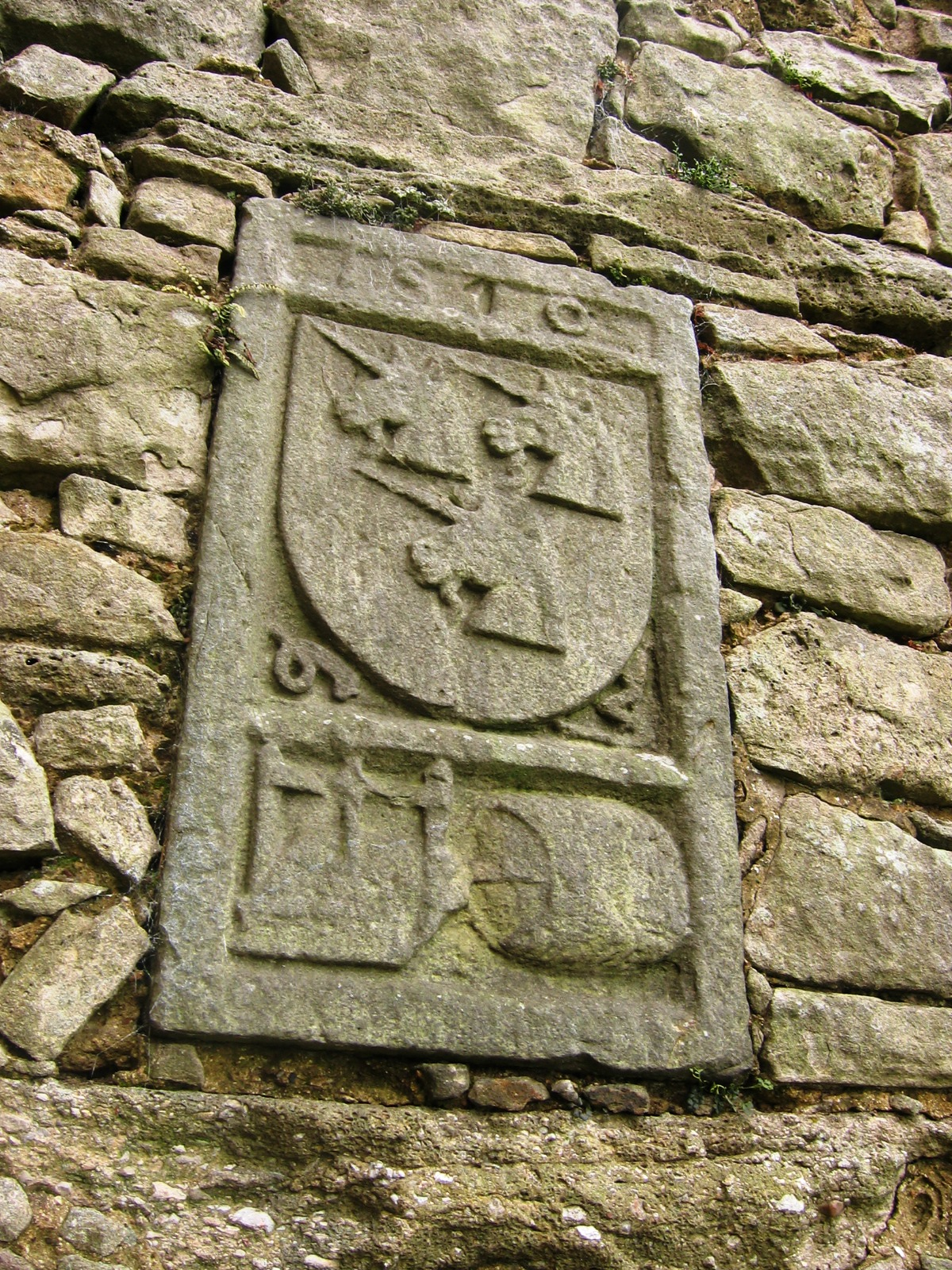 Craigmillar Castle, Edinburgh, Scotland. Stone dated 1510 with Preston arms and a rebus of the name (press, tun).